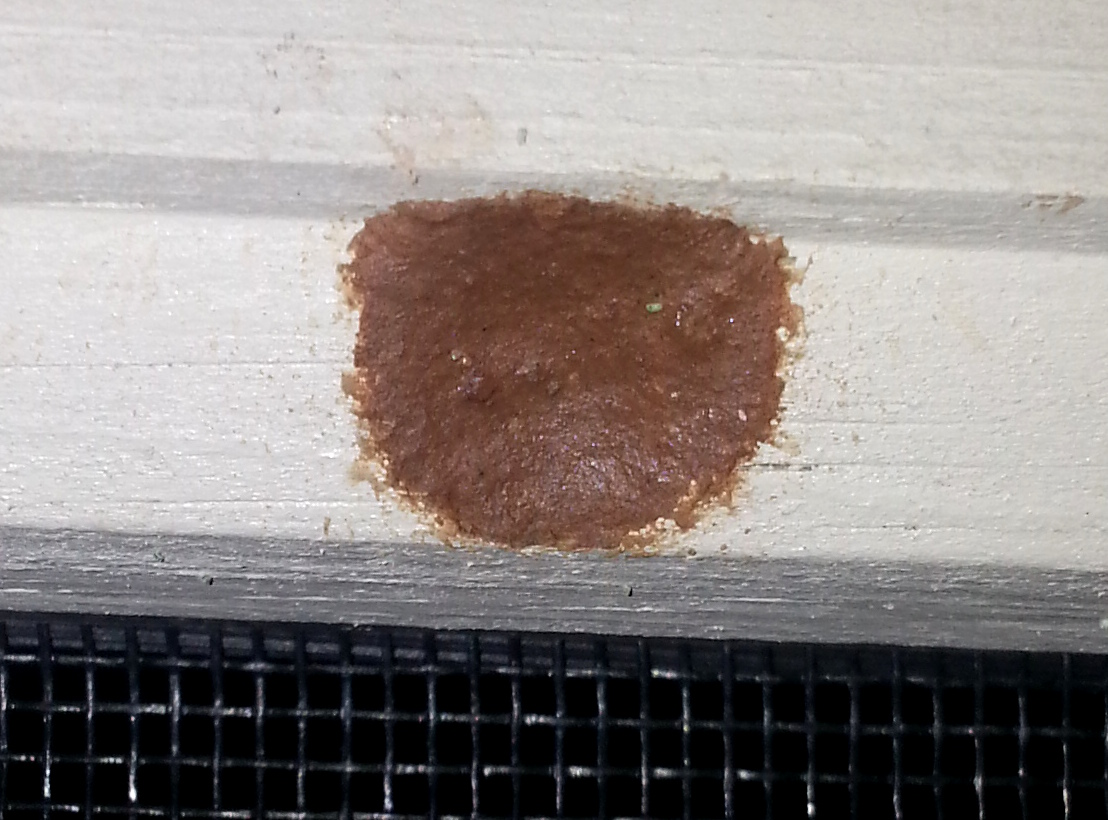 A mason wasp (pseudodynerus quadrisectus) nest in a screen door. Watched the wasp build this in a hole which had been bored by a carpenter bee a couple months prior. This image was taken just after it was sealed (i.e. after the last chamber was closed). 2014-06 in Durham, North Carolina.